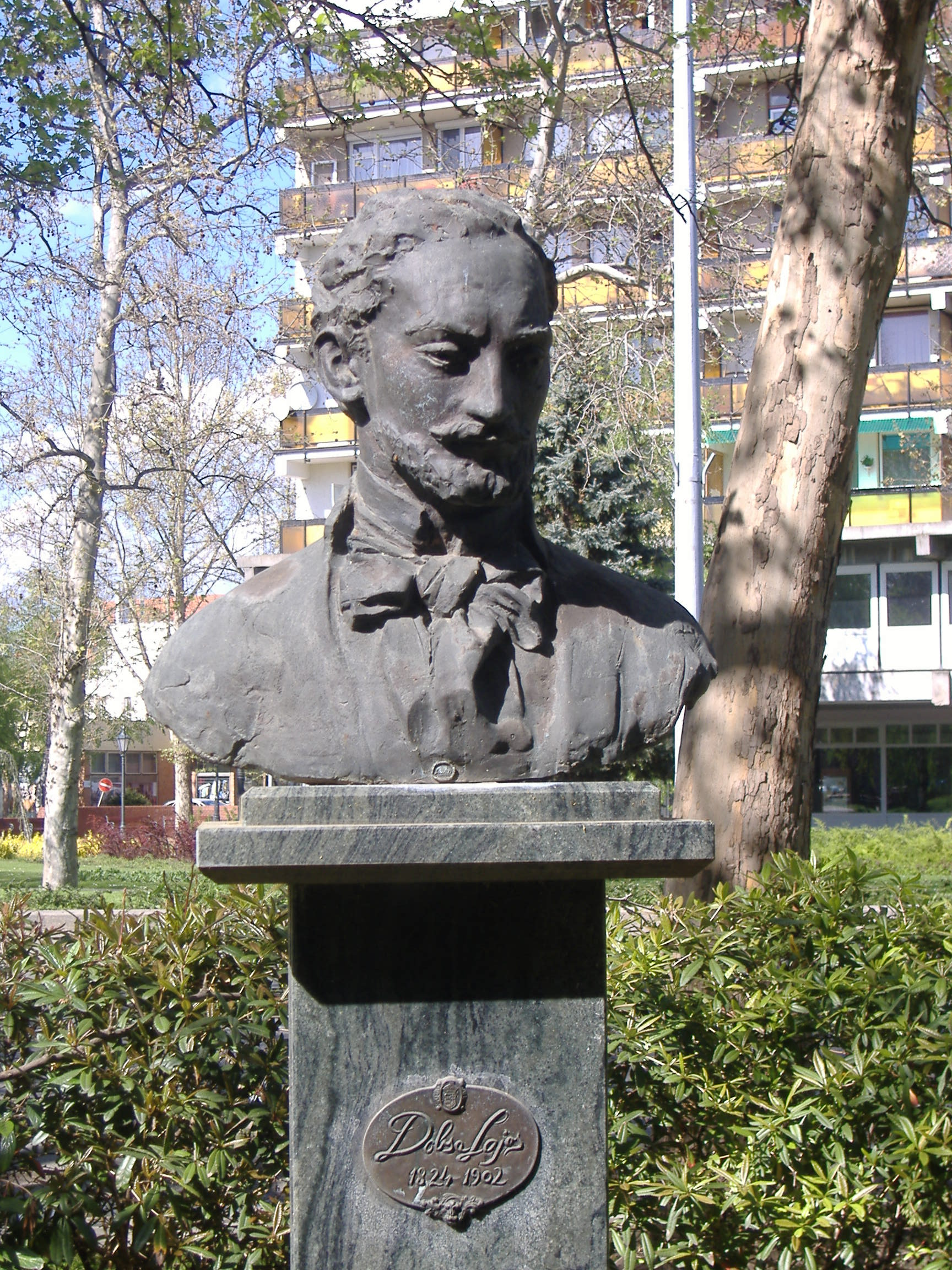 Statue of Lajos Dobsa, hungarian drama writer and hero of the Hungarian Revolution of 1848 in Makó, Hungary. Sculptor: Györgyi Lantos